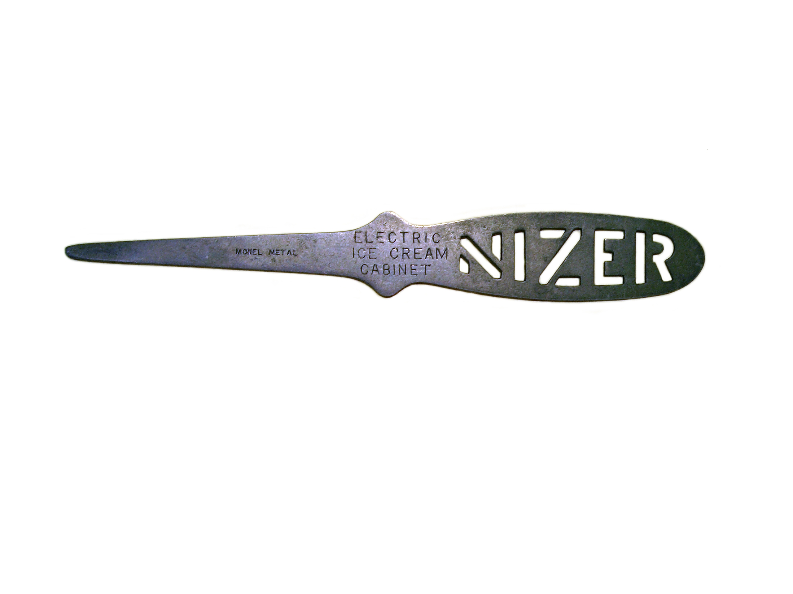 A letter opener made of Monel metal. Probably manufactured around 1930.